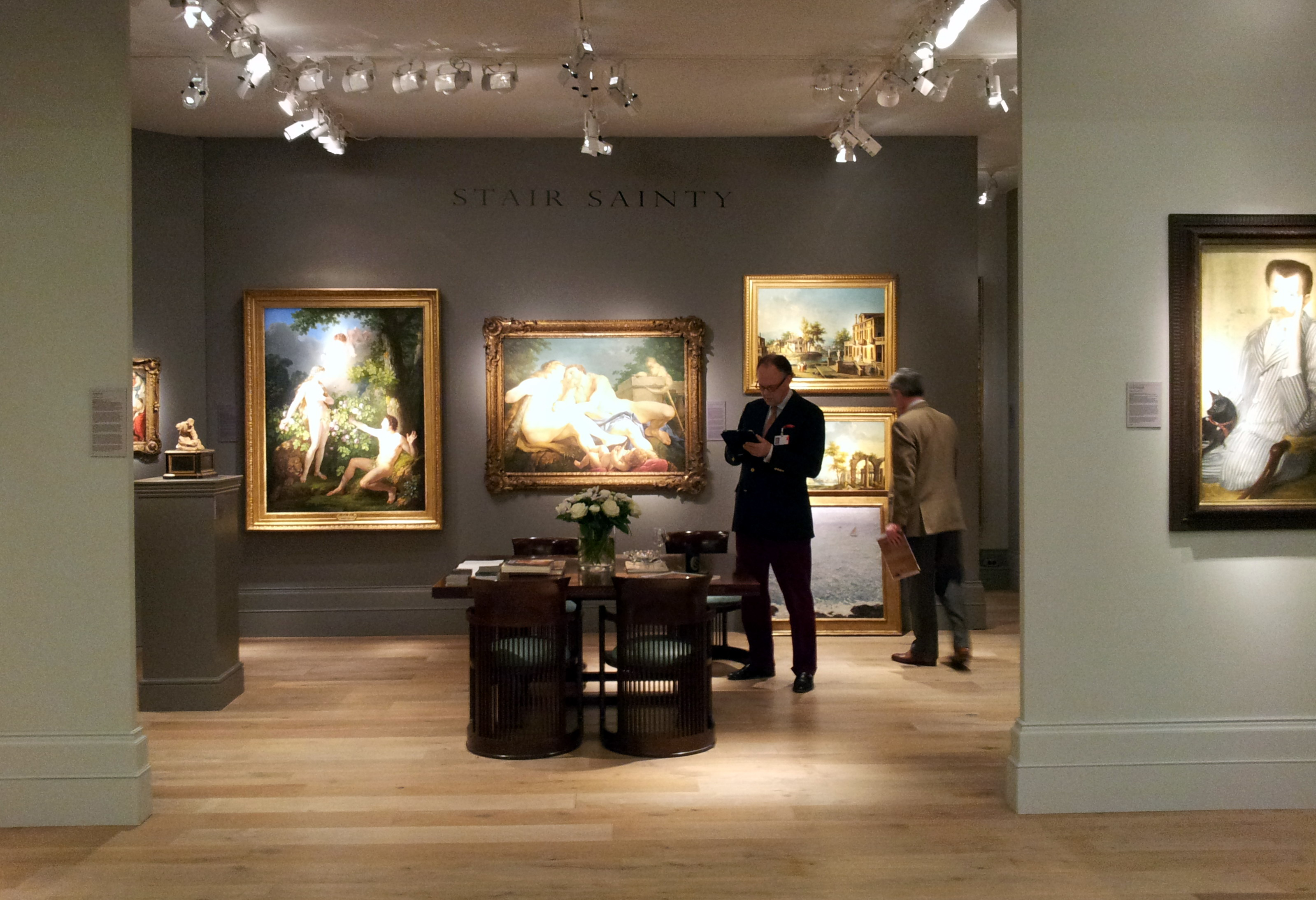 Maastricht, the Netherlands. View of TEFAF 2014, The European Fine Art Fair. Here: a dealer in old masters' paintings.